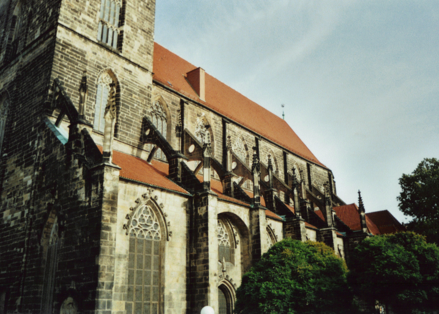 Saint Andrew's Church in Hildesheim